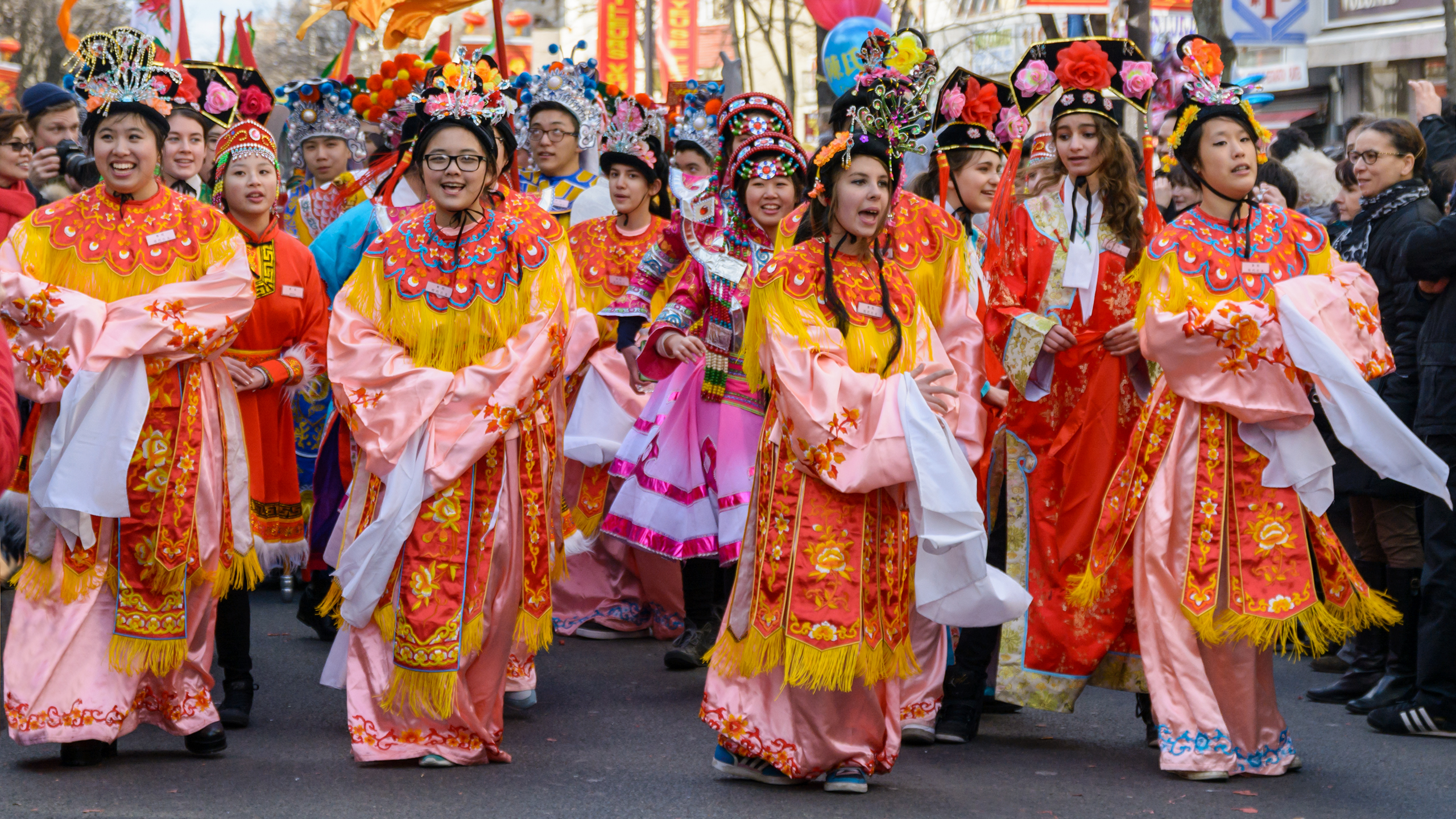 Chinese New Year 2015 in the 13th arrondissement of Paris